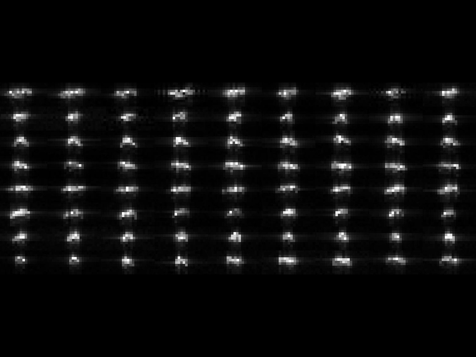 Goldstone radar collage of 2012 DA14 on 15-16 February 2013.